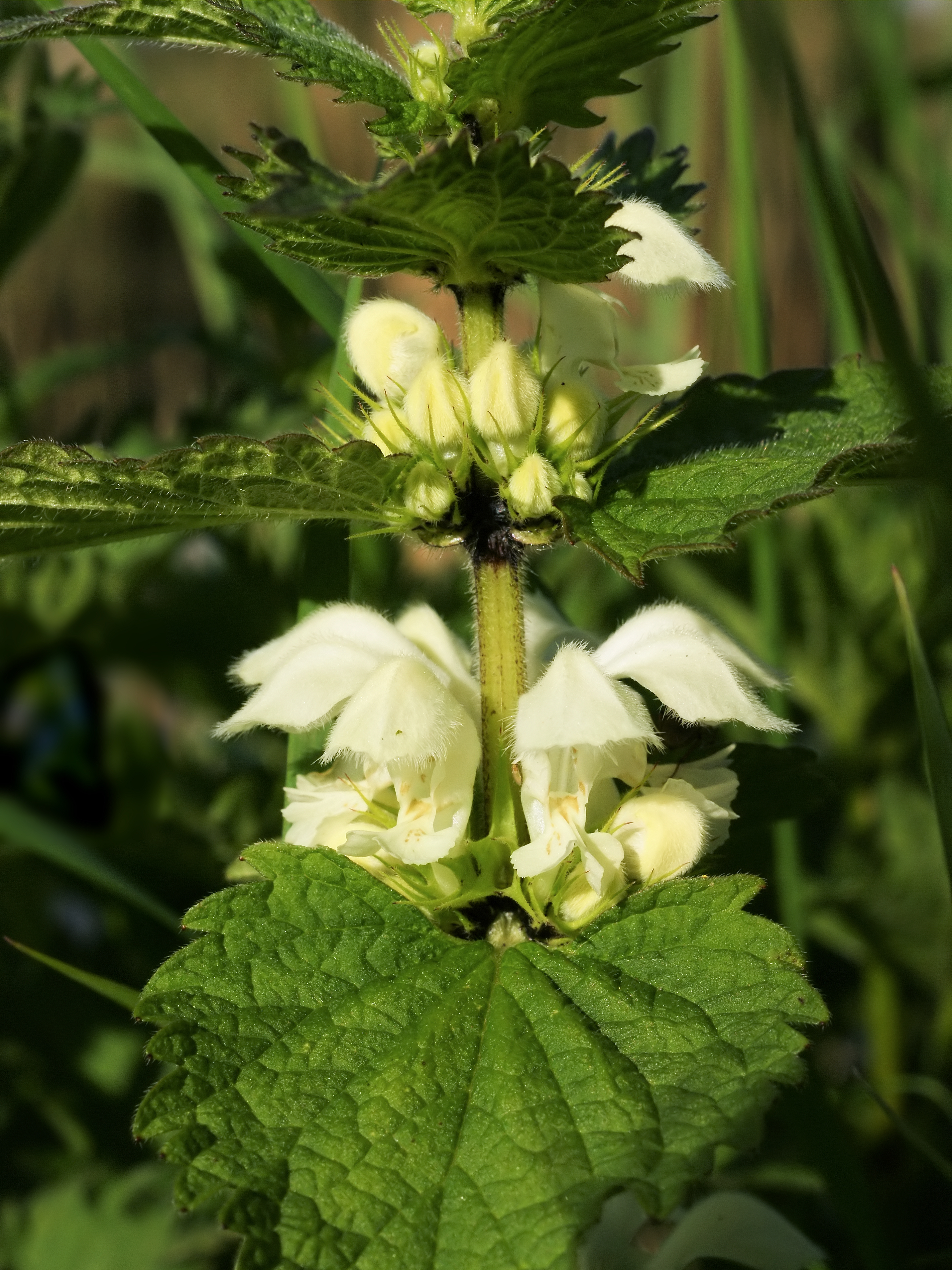 White Dead-nettle, Oostkamp, Belgium.